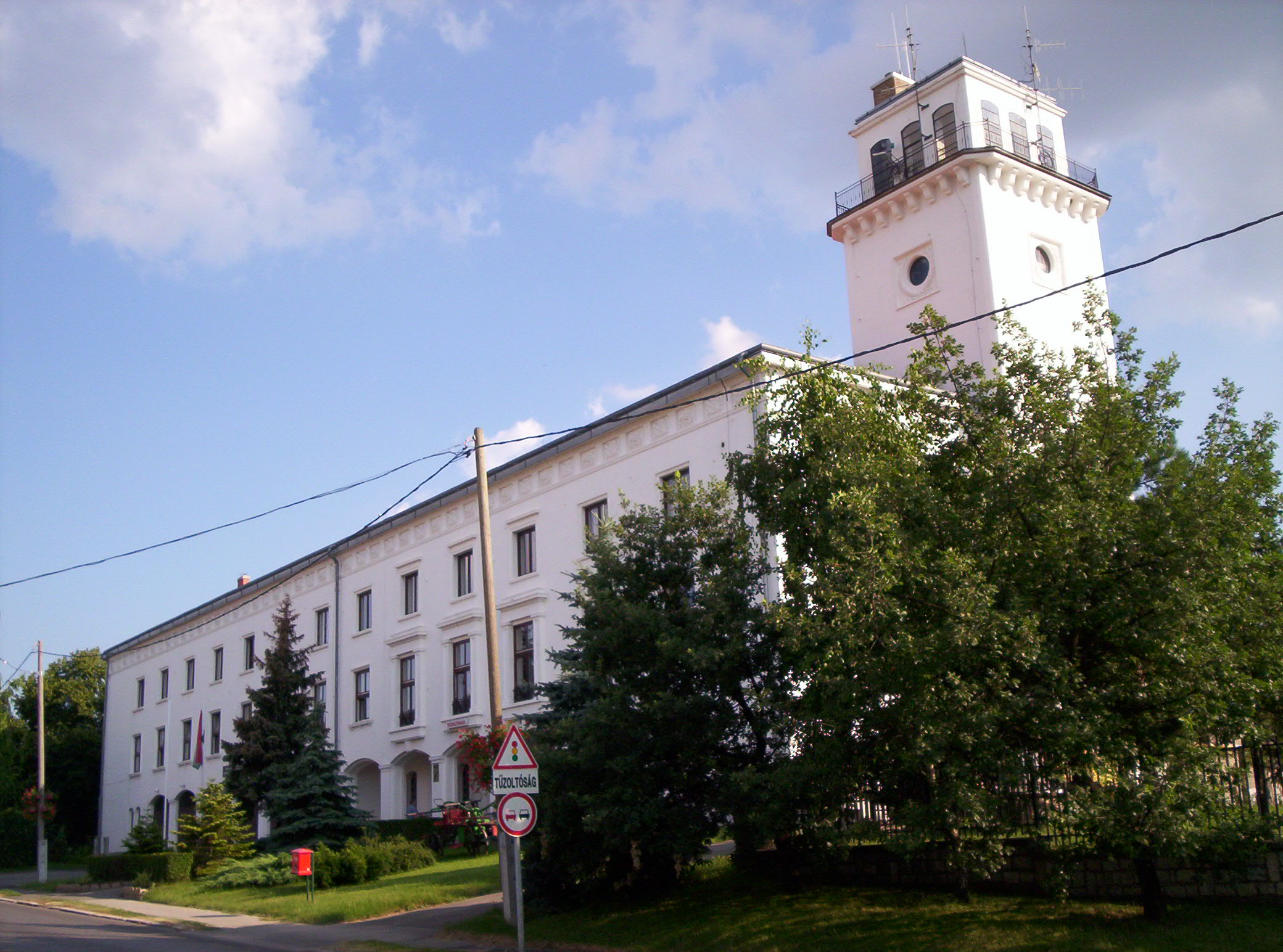 Building of Fire Department, Veszprém